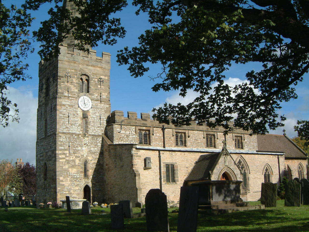 St Mary's Church East Leake Nottinghamshire. Photograph taken February 2001 by author